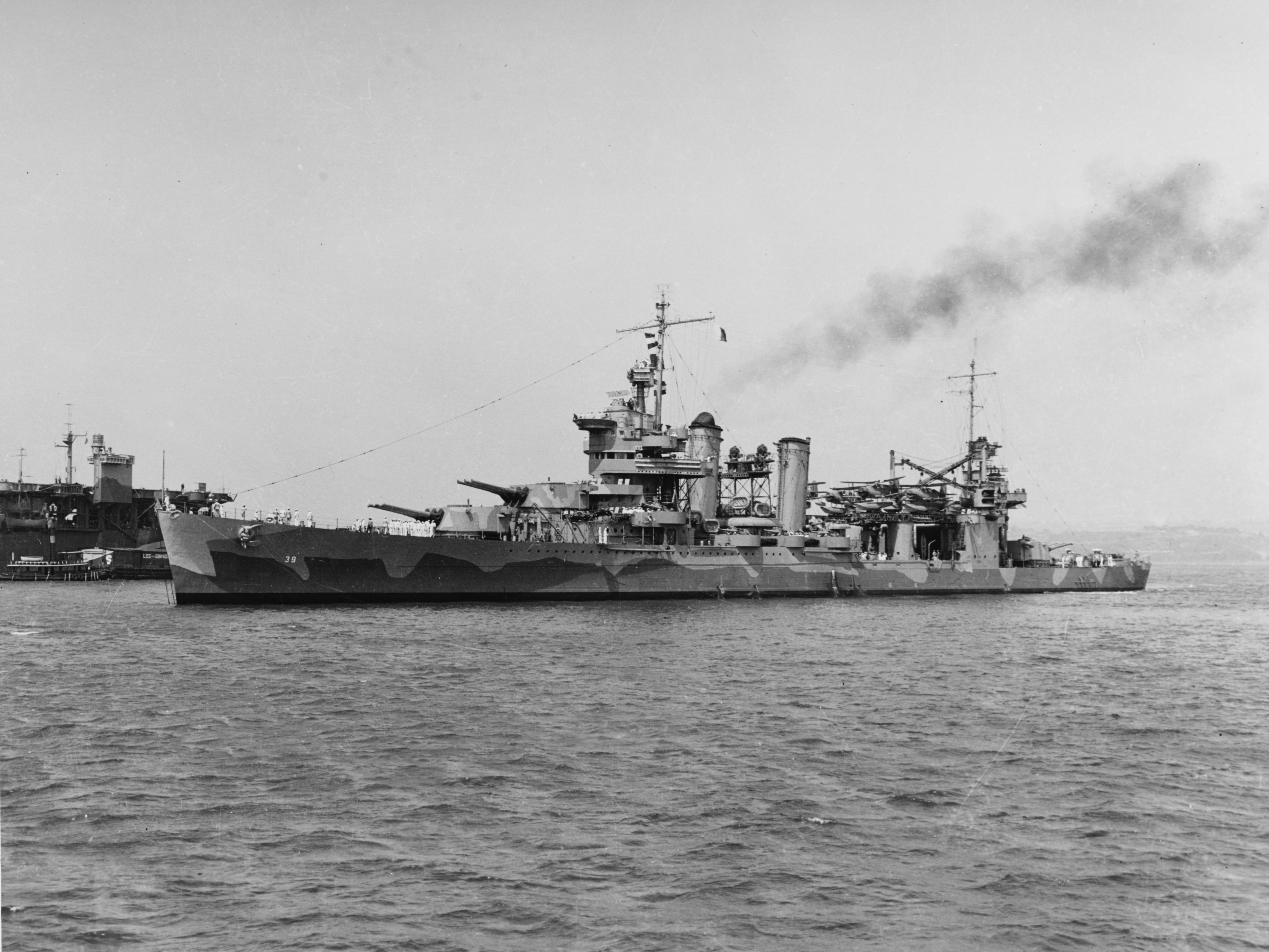 The U.S. Navy heavy cruiser USS Quincy (CA-39) in New York harbour, following her last overhaul. In the left background is the British escort carrier HMS Biter (D97). Note Quincy´s Modified Measure 12 camouflage scheme.